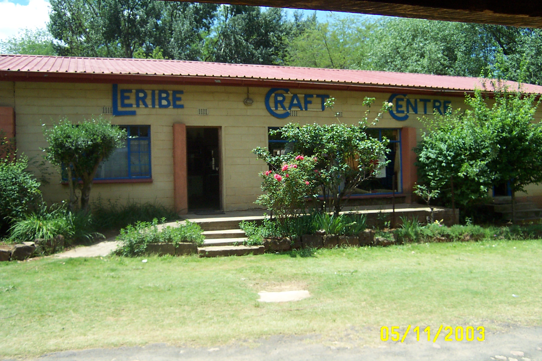 This is a picture of the Leribe Craft Center. I took it while staying in Lesotho